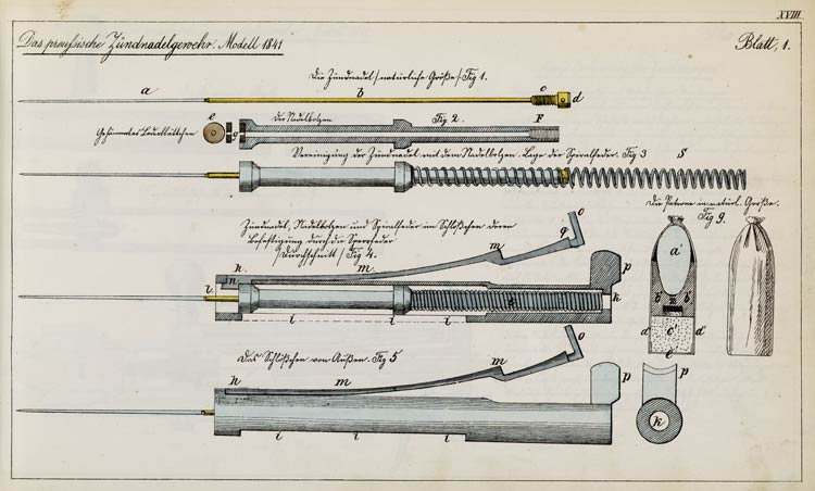 Dreyse needle gun